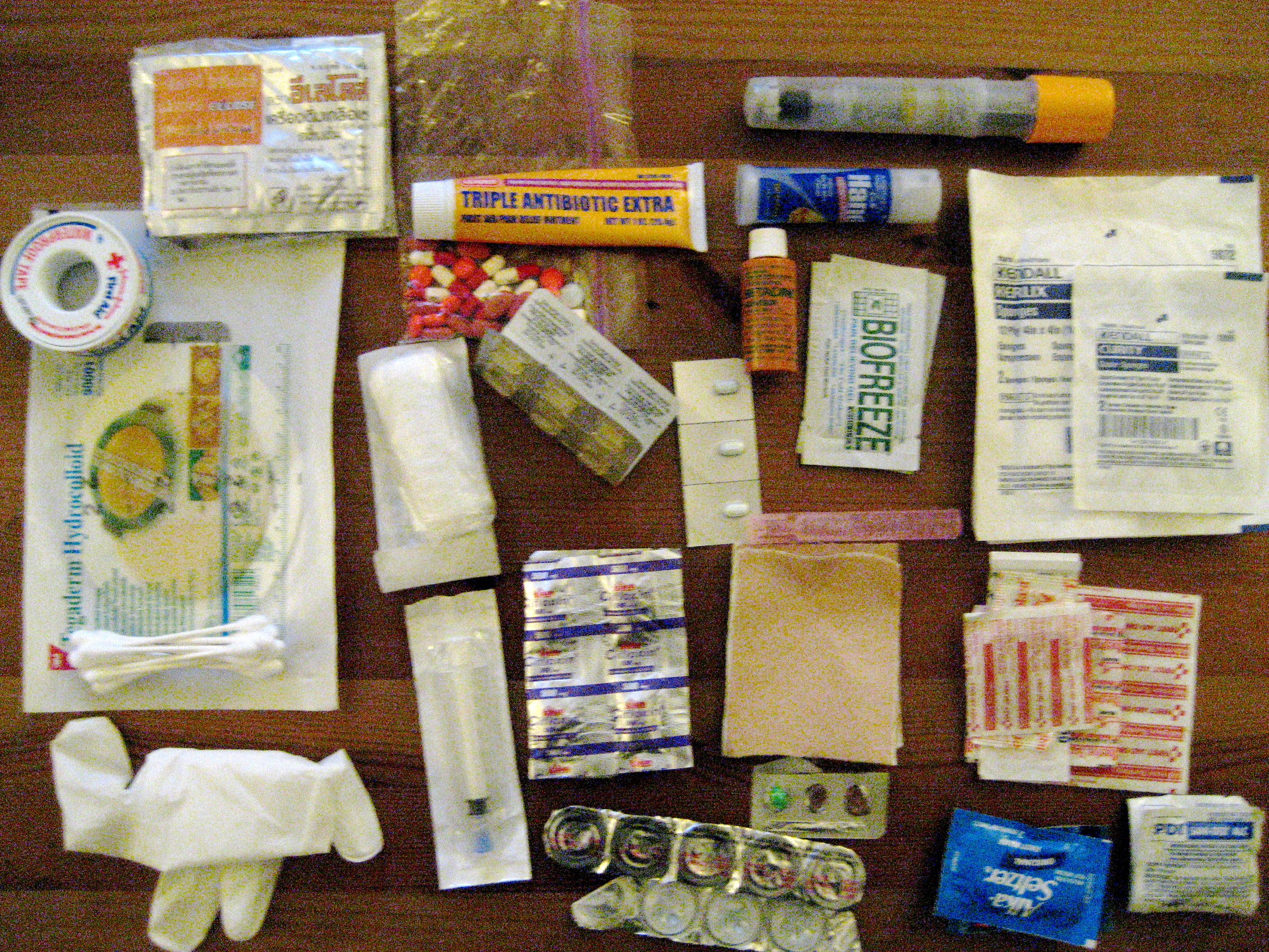 First aid kit for a trip to rural Nicaragua. Not pictured: Chloroquine. The contacts and the medical tape didn't make it in.